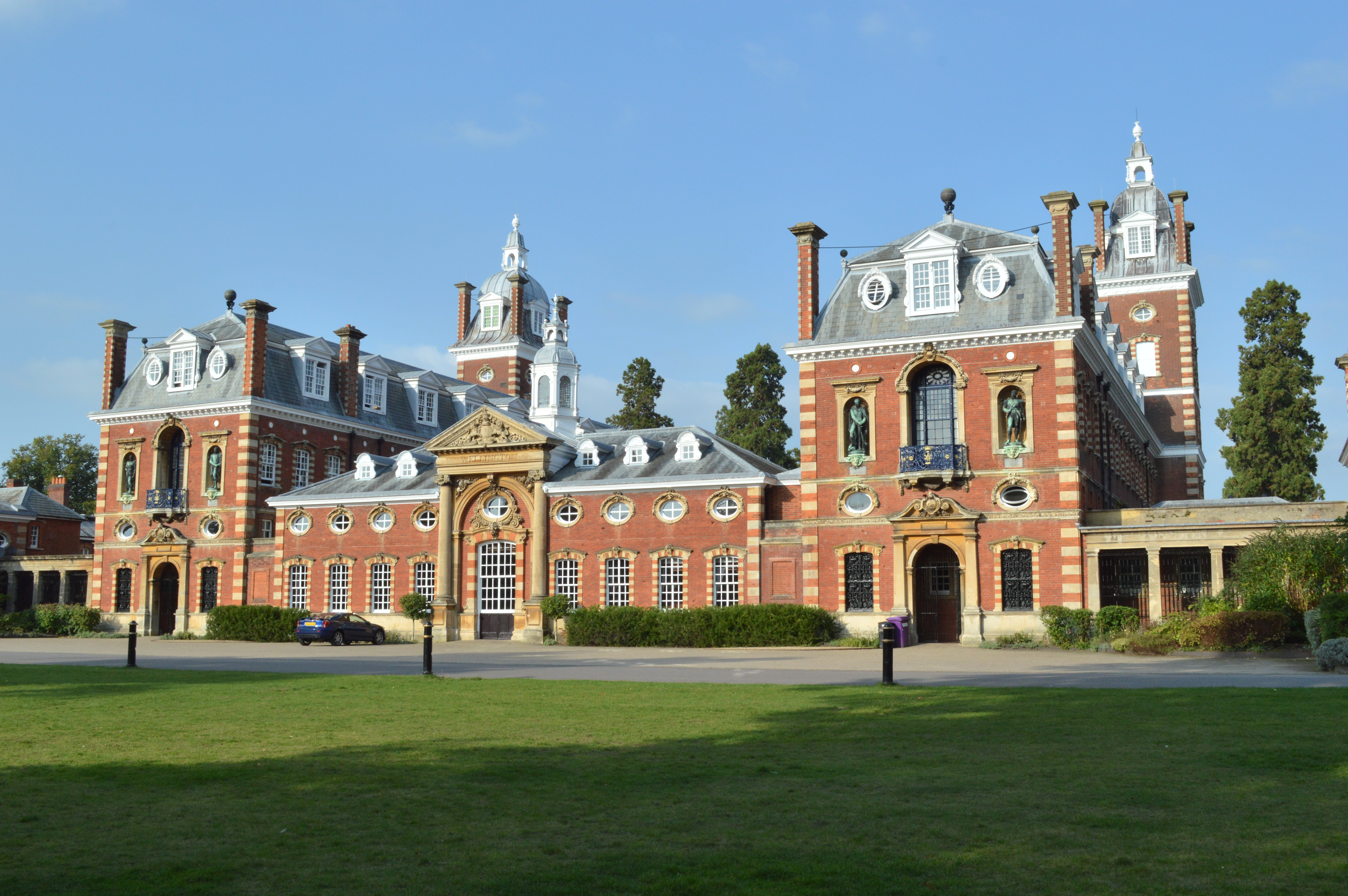 Wellington College, main blocks and front walls